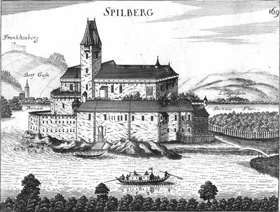 Ruin Spielberg in Upper Austria, engraving by Georg Matthäus Vischer 1672